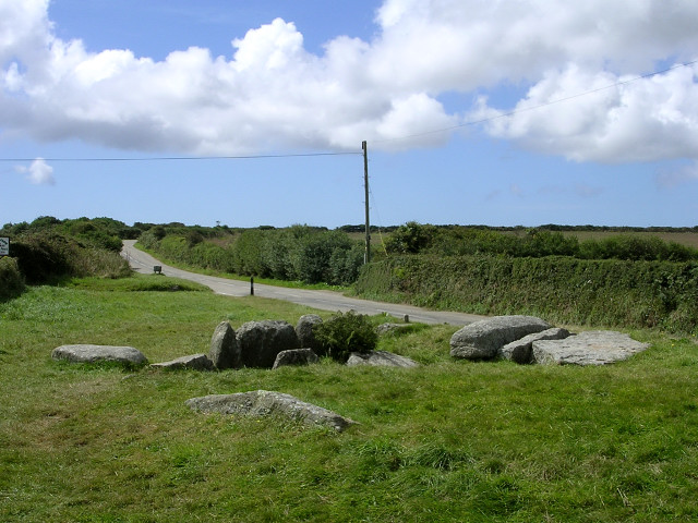 Tregiffian burial chamber. This photo shows the remains of the Tregiffian burial chamber alongside the B3315 road which cuts across its northern end. The Cornwall Heritage Trust information sign at the site says that the chambered tomb was built between 3000 and 2000 BC.